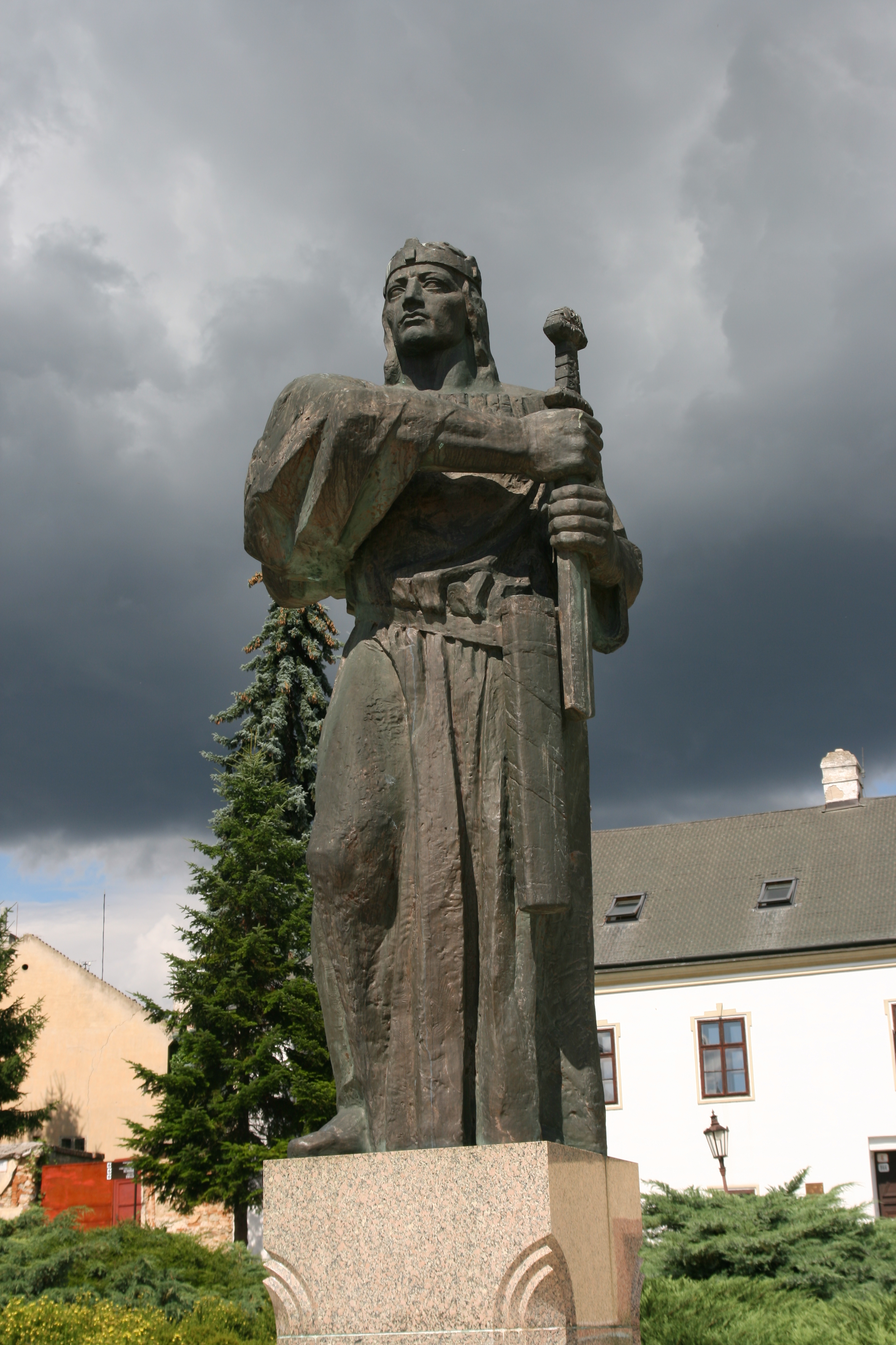 The statue of Pribina, Pribina square, Nitra, Slovakia.